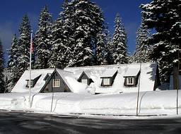 Crater Lake National Park Administration Building in Winter, date unknown